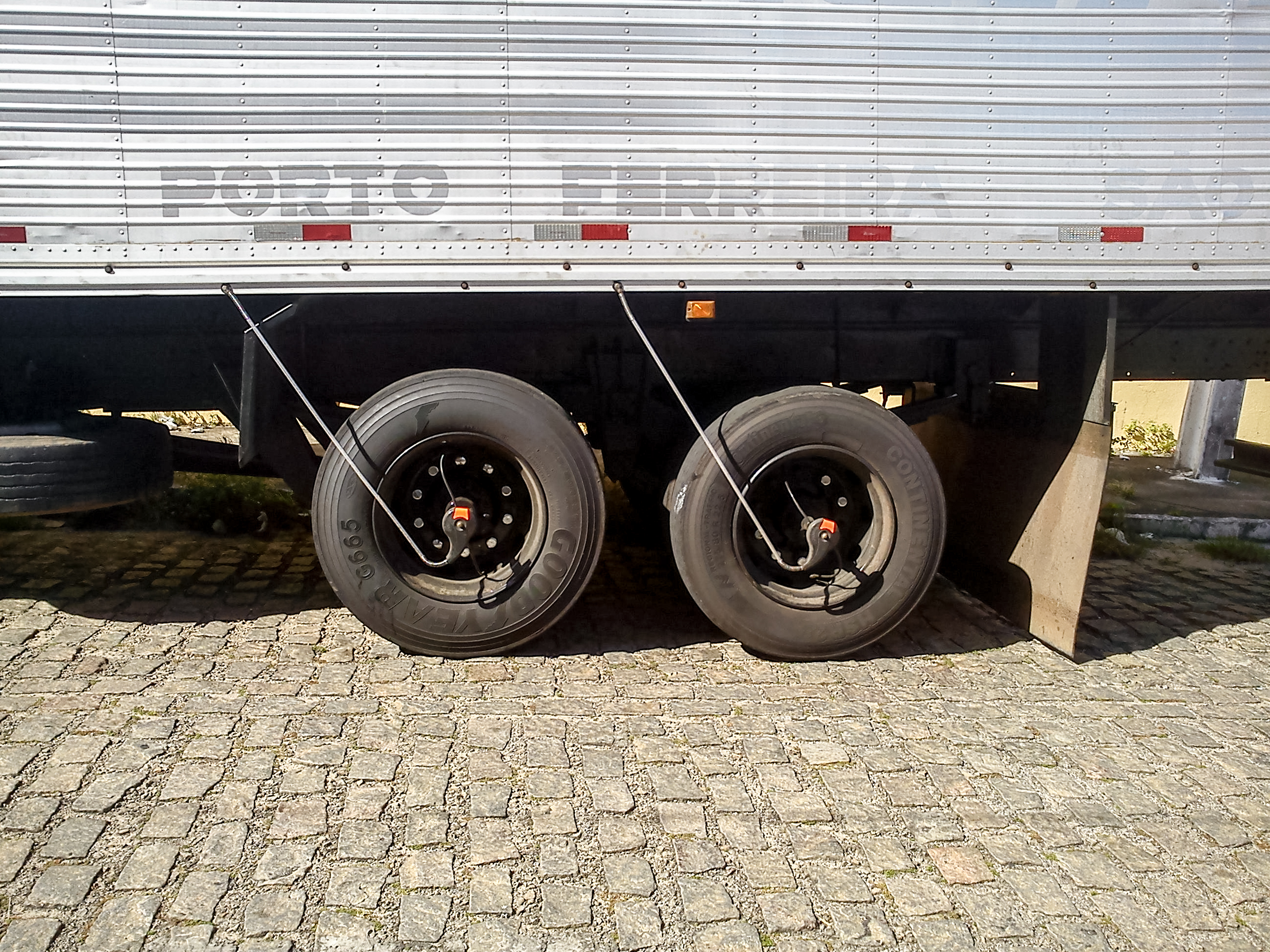 Rear wheels of a truck with central tire inflation system